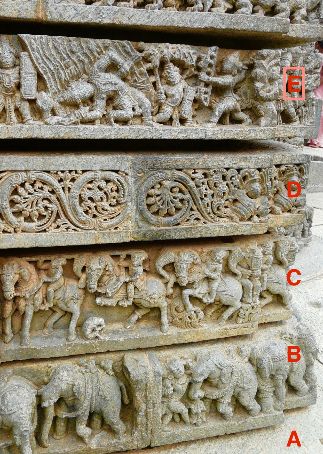 This is a derivative work on the following image available on wikimedia commons with creative commons license: Chennakesava Temple Sculpture detail (3924883715).jpg A: platform around the main temple for clockwise circumambulation B: Elephants band C: Horsemen band D: Scroll band E: Hindu texts band The Keshava temple at Somanathapura show friezes of the Ramayana, the Bhagavata Purana and the Mahabharata. The temple, also called Kesava or Chennakesava temple, is a Vaishnava Hindu temple. It is located at Somanathapura (Somanathpur) in South Karnataka, in a small village on the banks of the river Cauvery, about 40 km from the city of Mysuru. The temple is one of the finest examples of Hoysala architecture and testament to the sophistication of Hindu art and architecture by the 12th-century. Built by 1268 CE by a commander of Hoysala king Narasimha III, it illustrates fine carvings with extraordinary details.